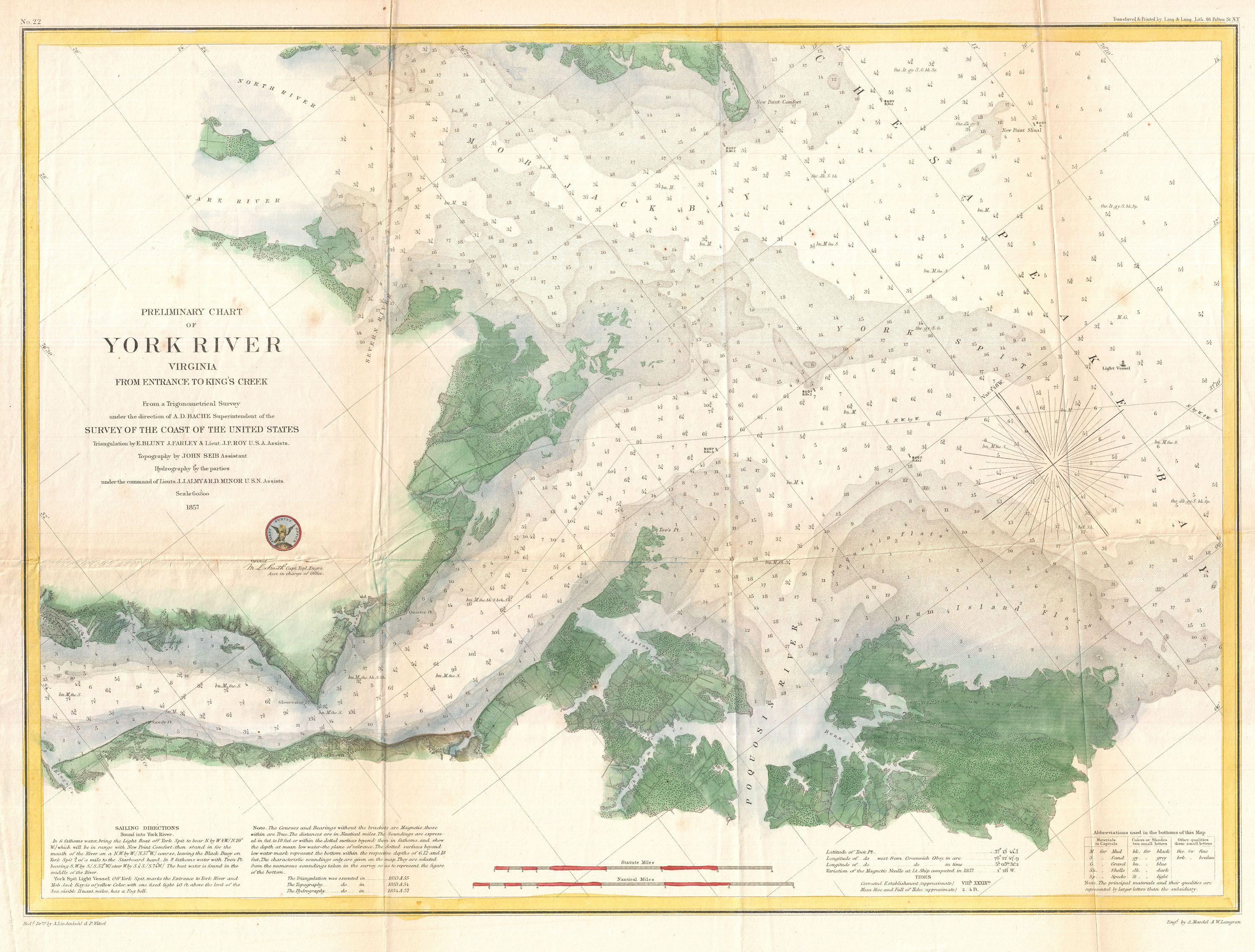 An attractive hand colored 1857 U.S. Coast Survey nautical chart or map of Virginia’s York River. Covers the course of the York River from its entrance at the Chesapeake Bay to King Creek. Offers countless depth soundings, sailing instructions, and navigational notes, as well as considerable inland detail. Identifies Yorktown, Gloucester Point, and a number of other important sites. The York River was an important theater in the American Revolutionary war and it is here, at Yorktown, where the British formally surrendered. The hand color work on this beautiful map is exceptionally well done. The triangulation for this chart was accomplished by E. Blunt, J. Farley and J. P. Roy. The Topography is the work of John Seib. The Hydrography was completed by a party under the command of J. J. Almy and R. D. Minor. Compiled under the direction of A. D. Bache, Superintendent of the Survey of the Coast of the United States and one of the most influential American cartographers of the 19th century.